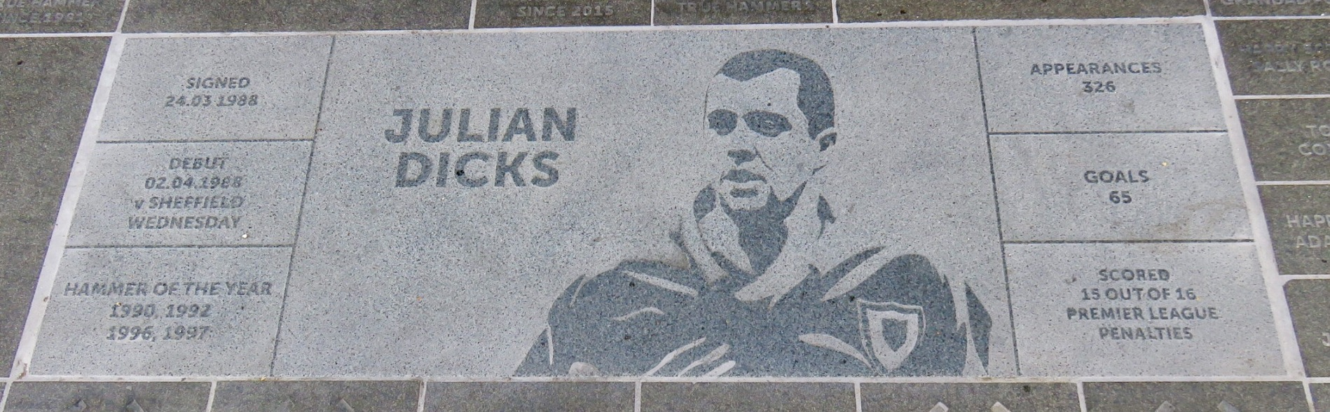 A commemorative granite stone for former West Ham United player Julian Dicks outside the London Stadium.